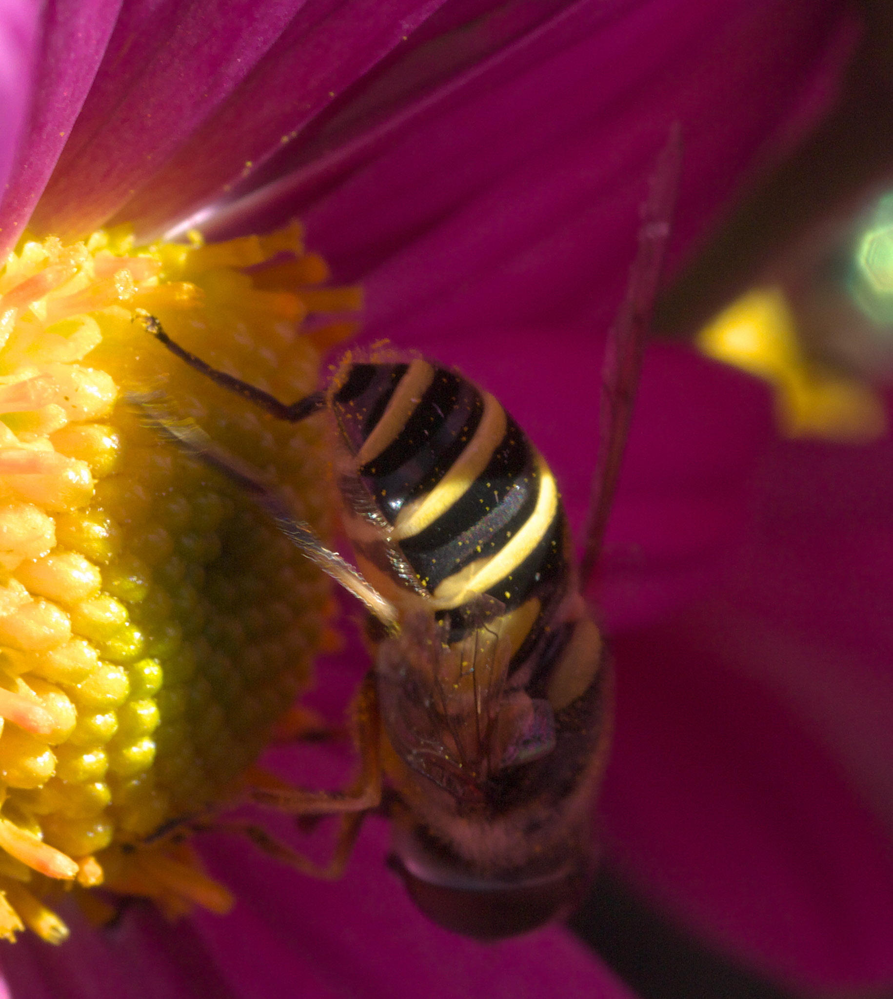 Eristalis transversa, Transverse Flower Fly, ID Confidence: 95